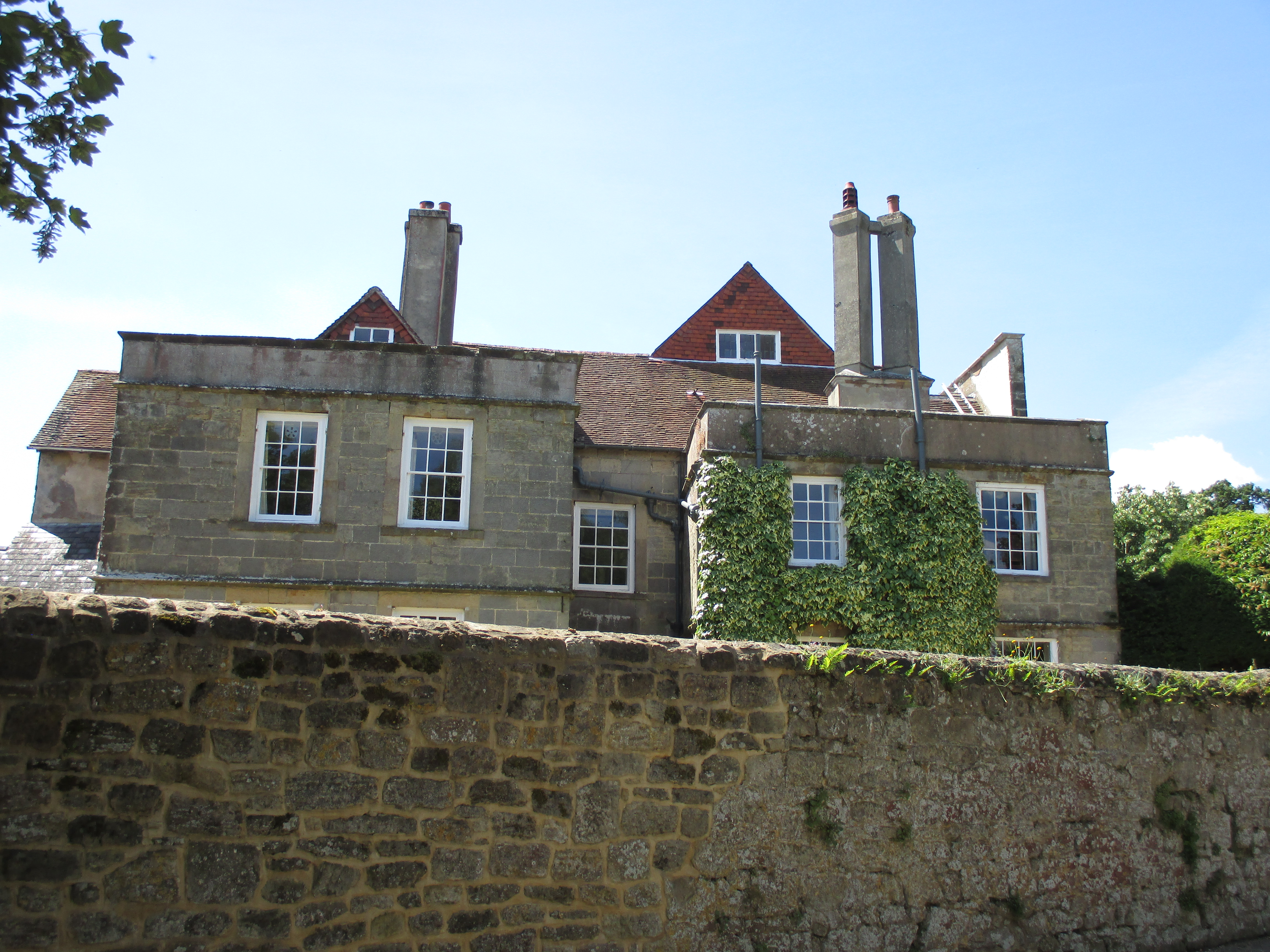 New Grove, Grove Street, Petworth, West Sussex, seen from the east.